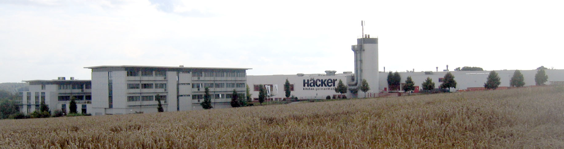 Kitchen plant Häcker Küchen in the town of Rödinghausen-Bieren, Germany.